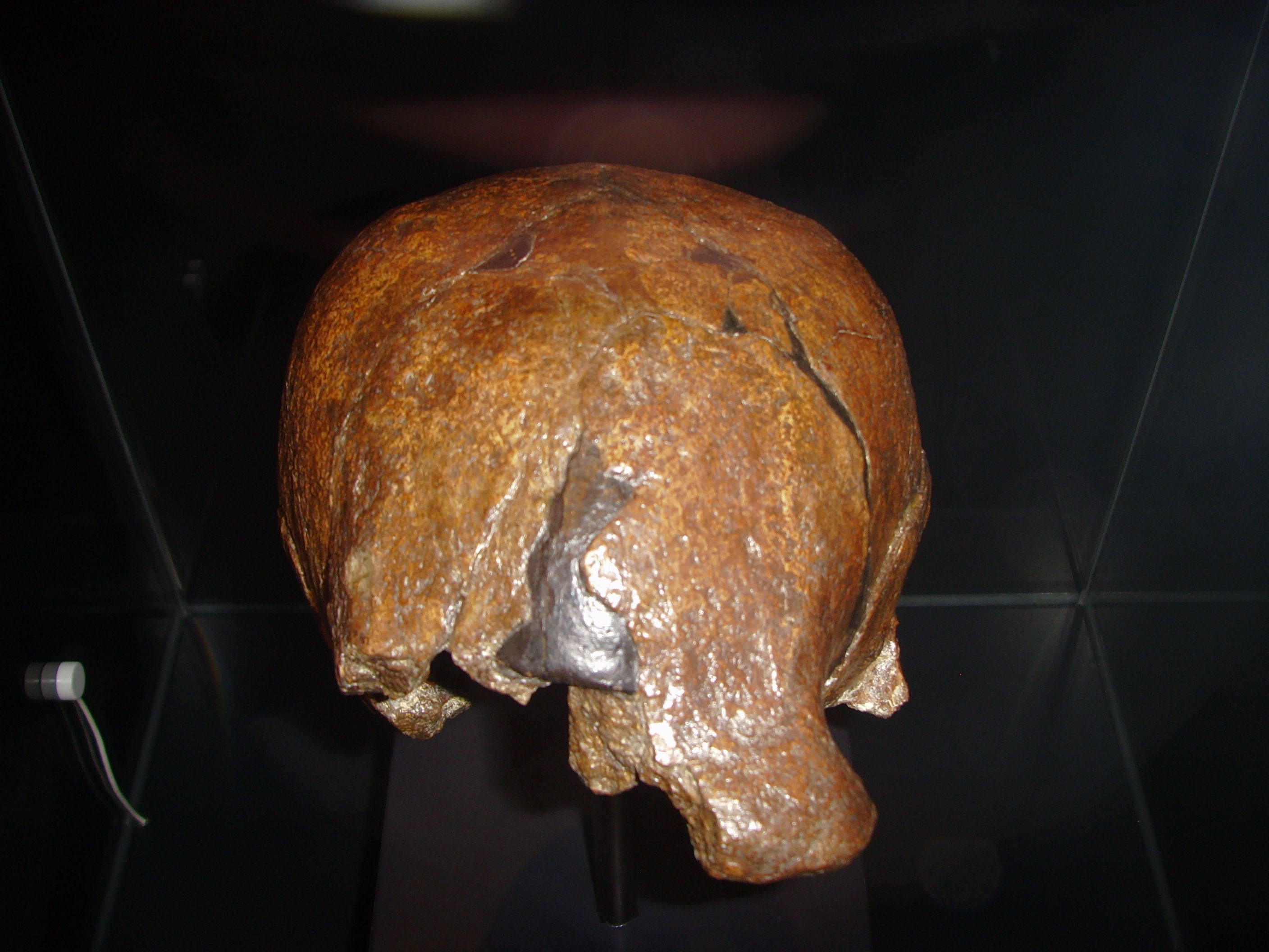 Calvarium (Schaedeldach) "Sangiran II" (Original) of Homo erectus, collection Koenigswald, Senckenberg-Museum, Frankfurt am Main, Germany